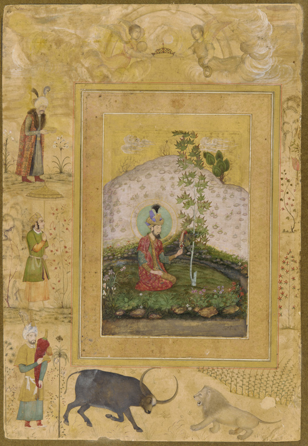 The Late Shah Jahan Album: Humayun Seated in a Landscape